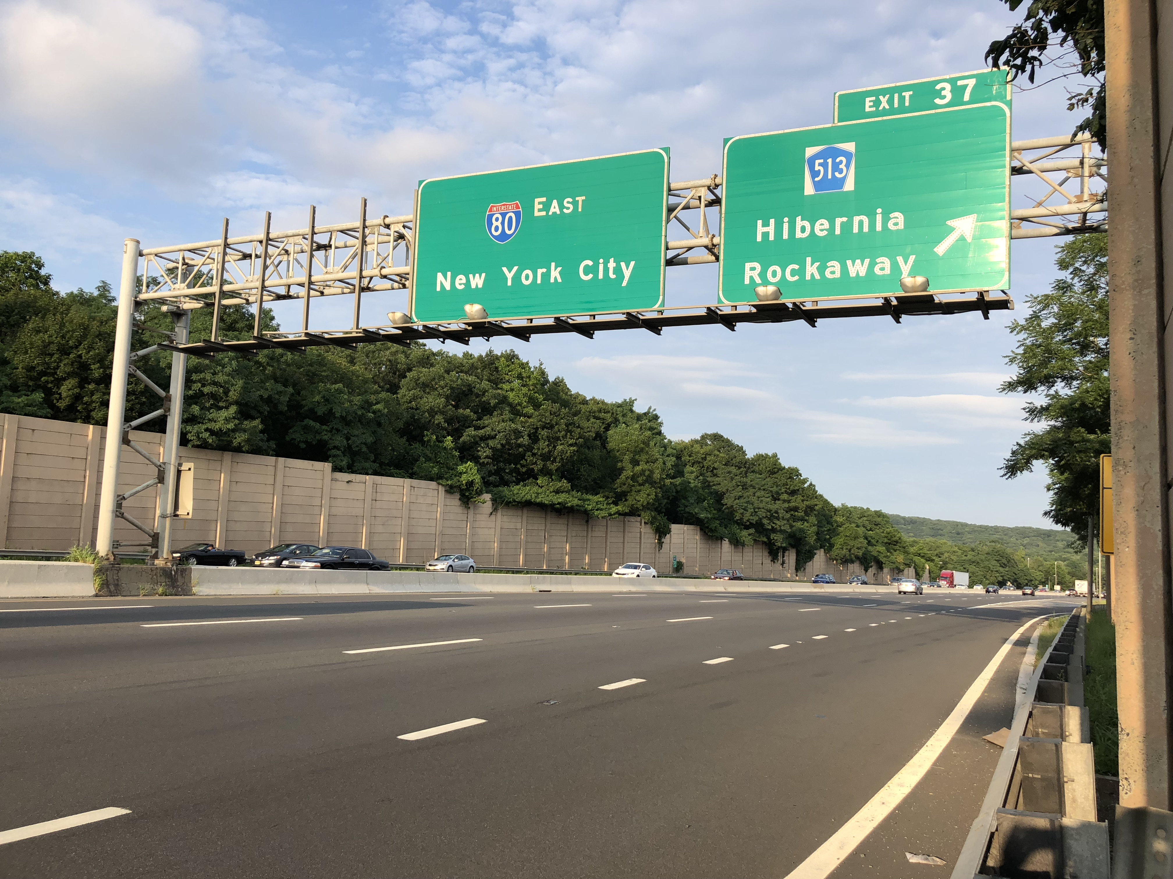 View east along Interstate 80 at Exit 37 (Morris County Route 513, Hibernia, Rockaway) in Rockaway, Morris County, New Jersey